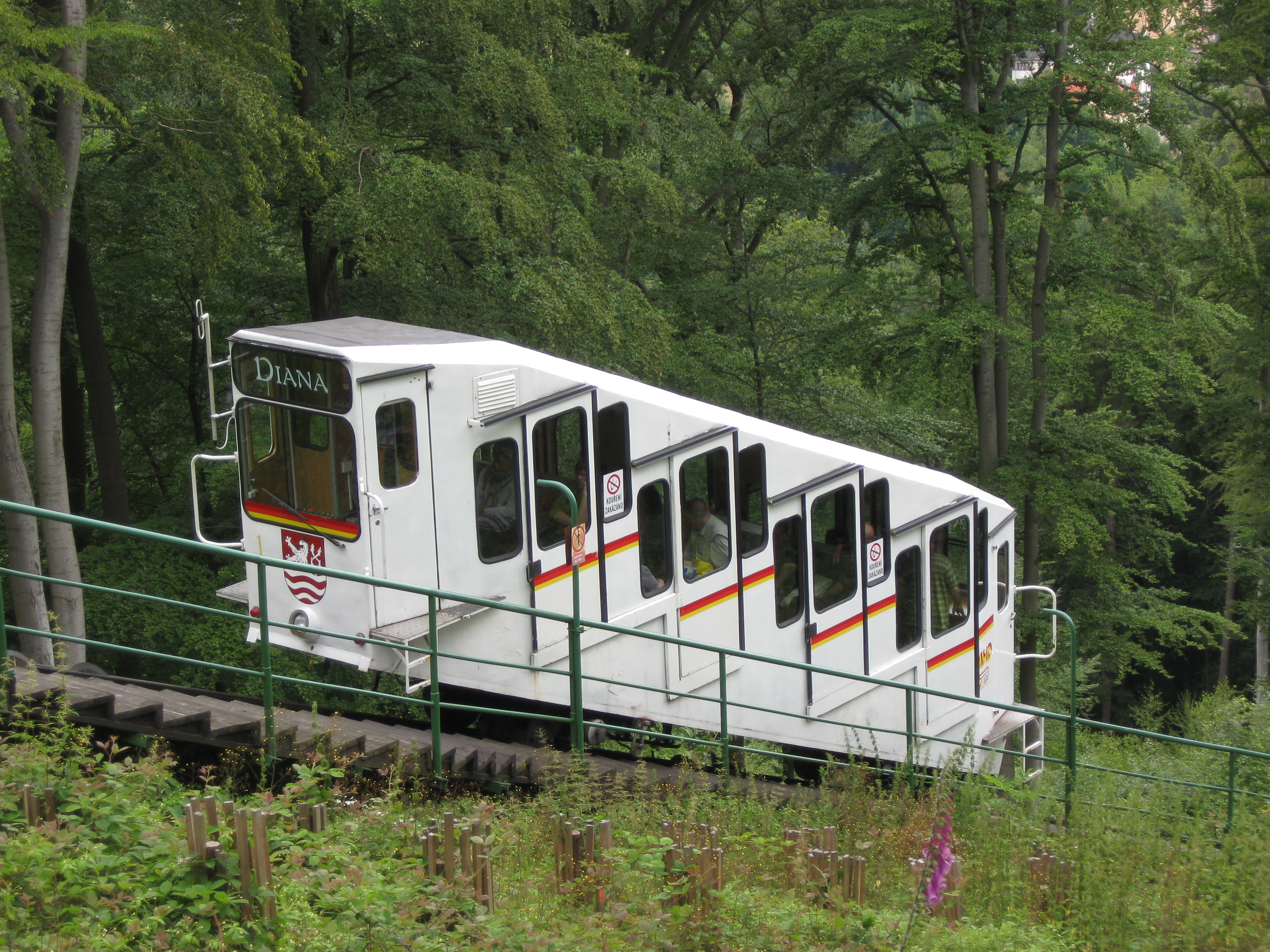 Diana funicular in Karlovy Vary, Czech Republic